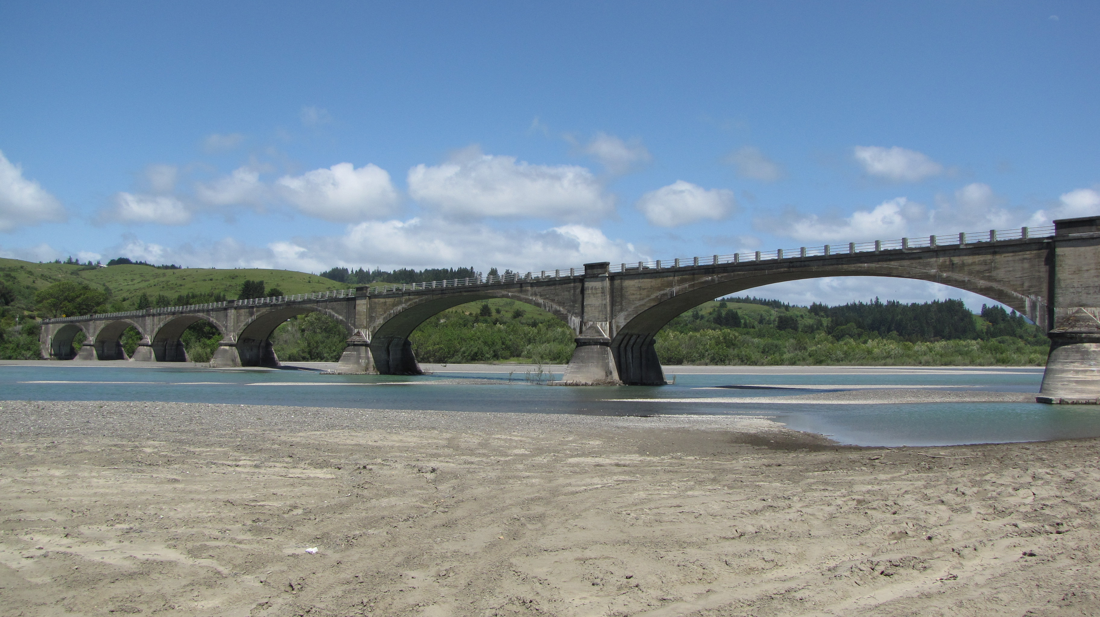 Fernbridge spans the Eel River between the communities of Fernbridge and Ferndale along California State Route 211, Northern California. View from the south bank on the west side of the bridge. Built 1911, on the National Register of Historic Places.